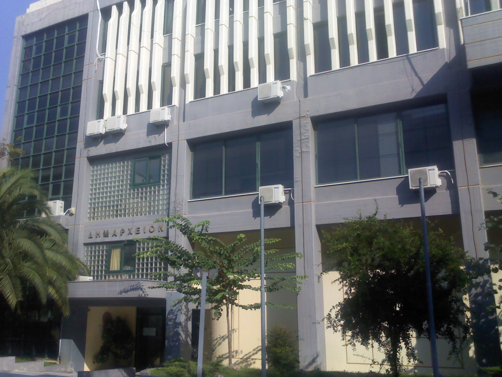 Municipality Agios Ioannis Rentis